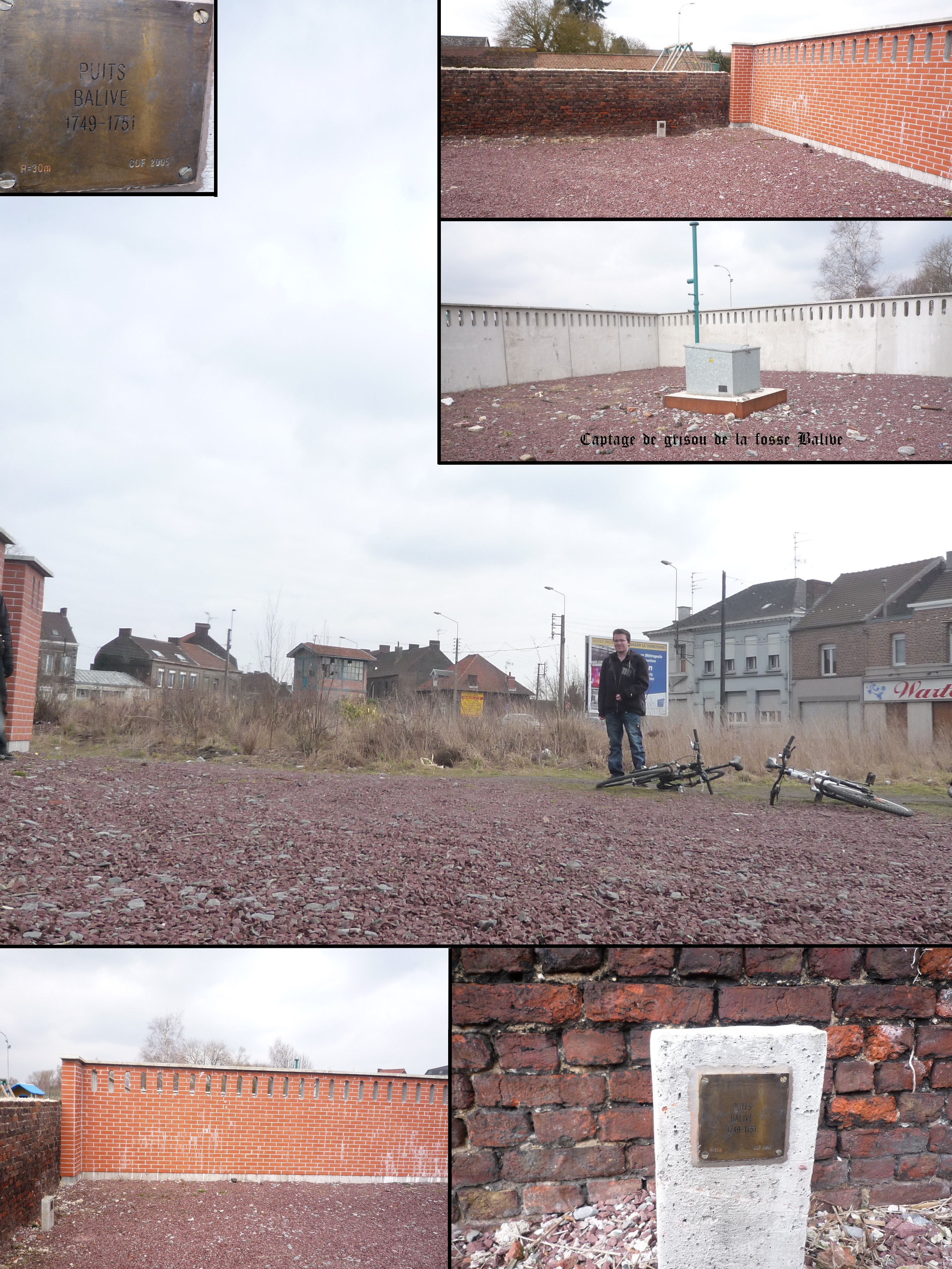 Pit Balive, Compagnie des mines d'Anzin, Vieux-Condé, Nord, Nord-Pas-de-Calais, France.